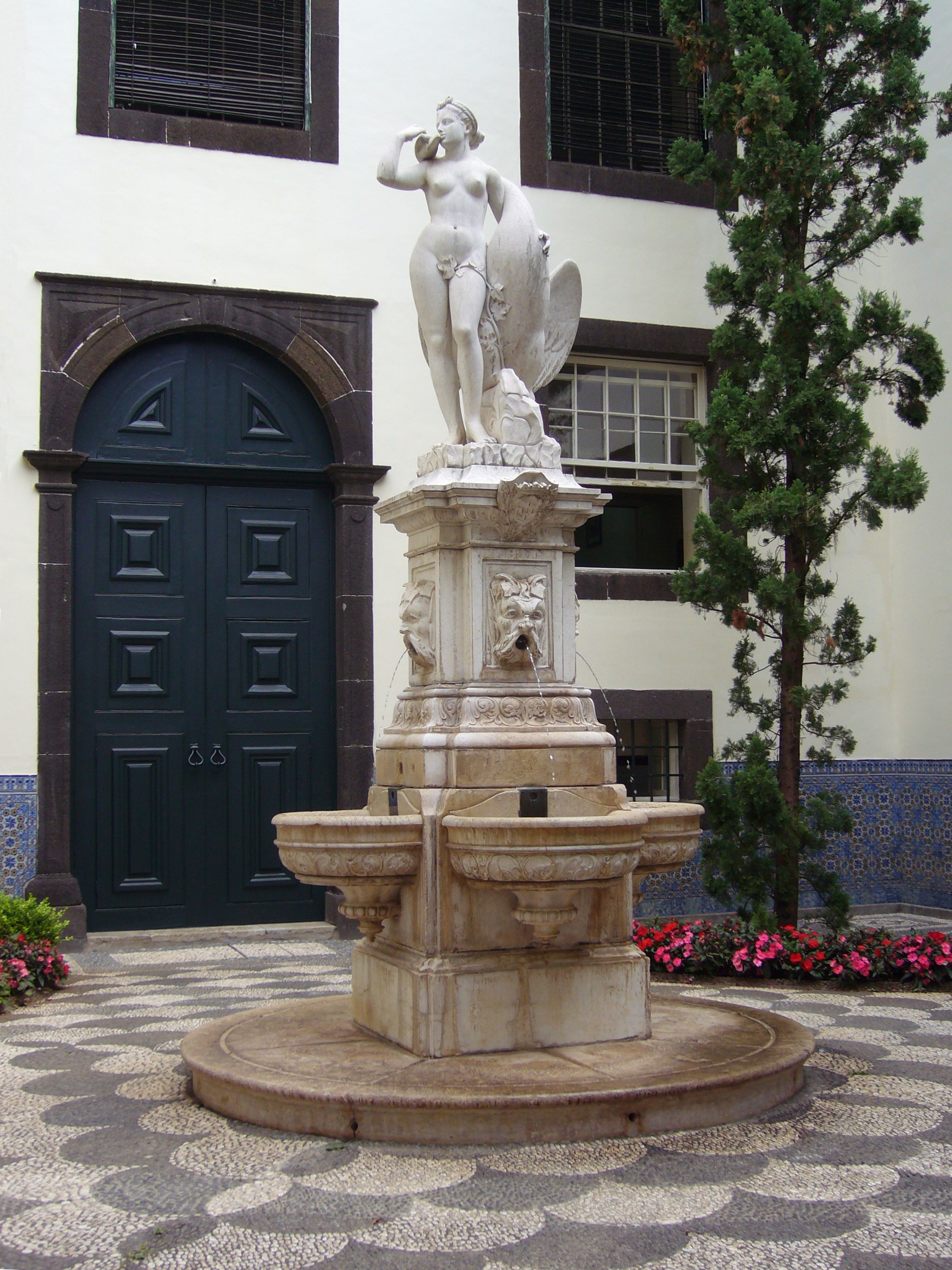 Statue "Leda and the swan" in the yard of old town hall in Funchal - Madeira